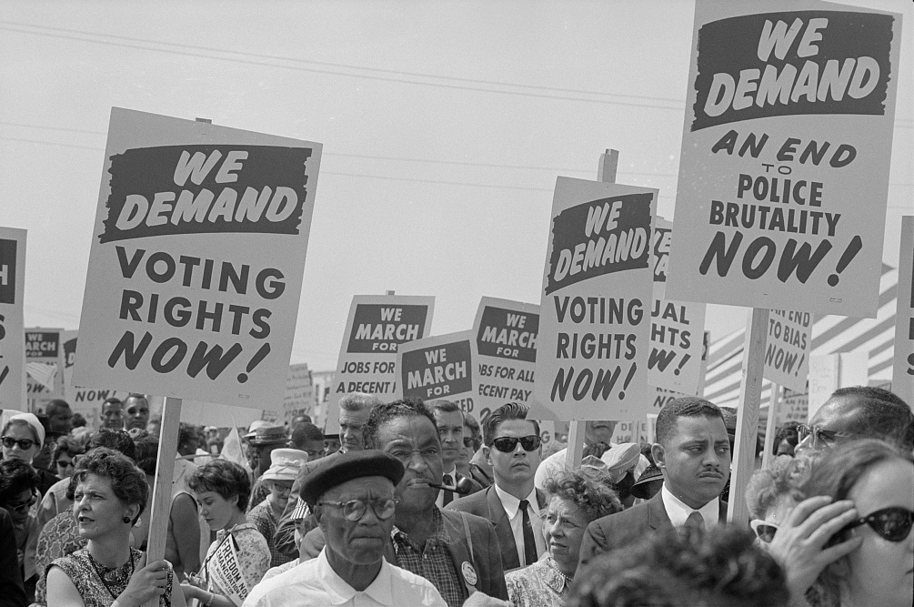 [Marchers with signs at the March on Washington, 1963]